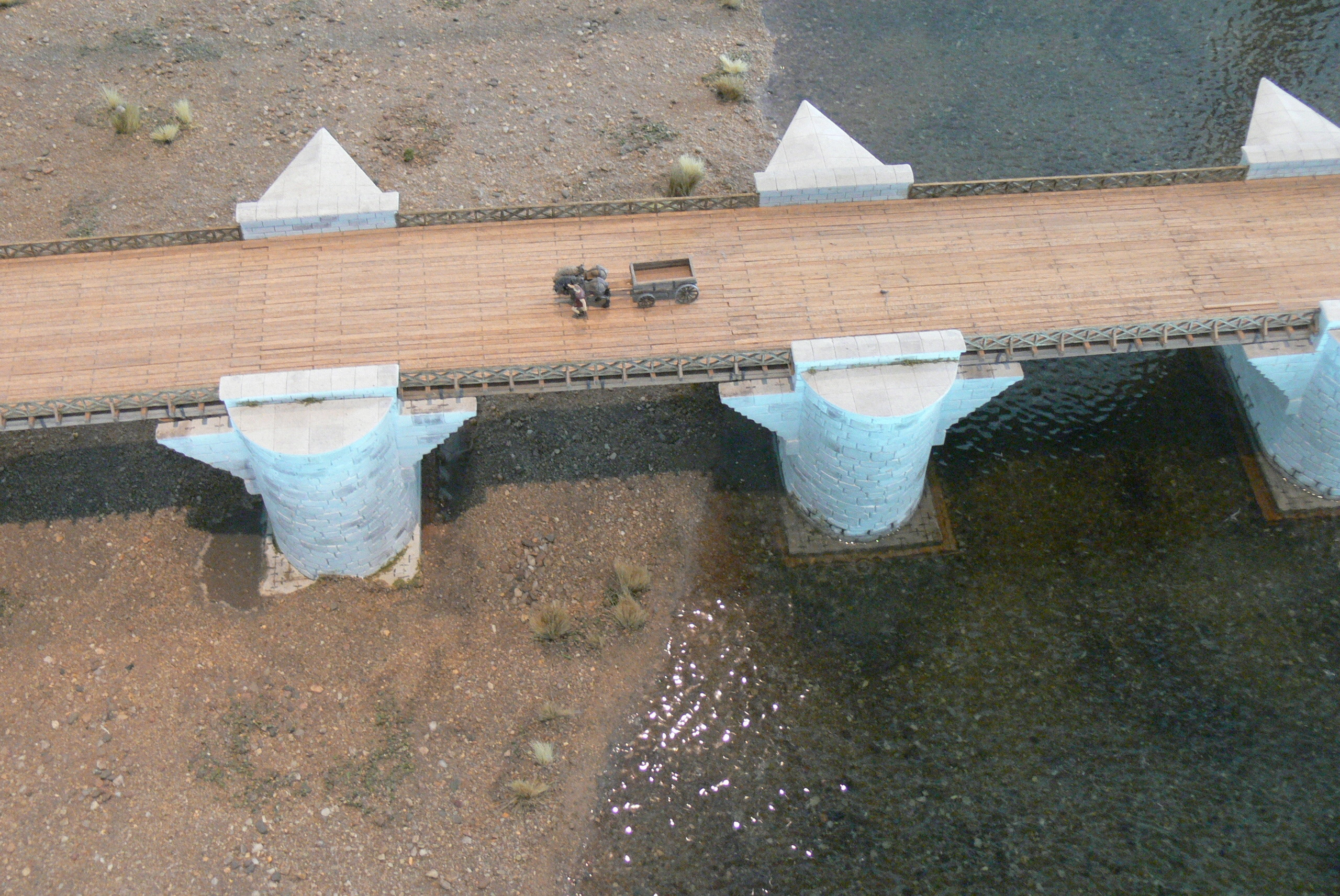 Celtic Museum Manching ( Bavaria ). Modell of the ancient Roman bridge ( 165 AD ) at Stepperg.